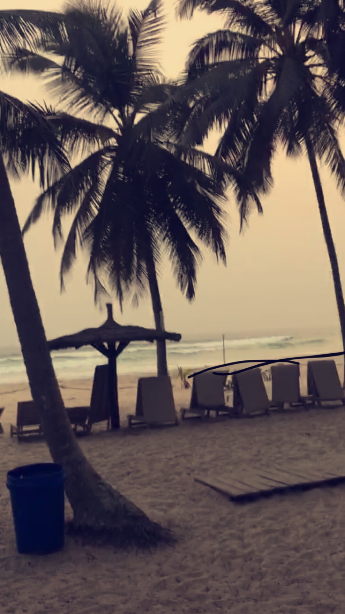 Assinie Beach